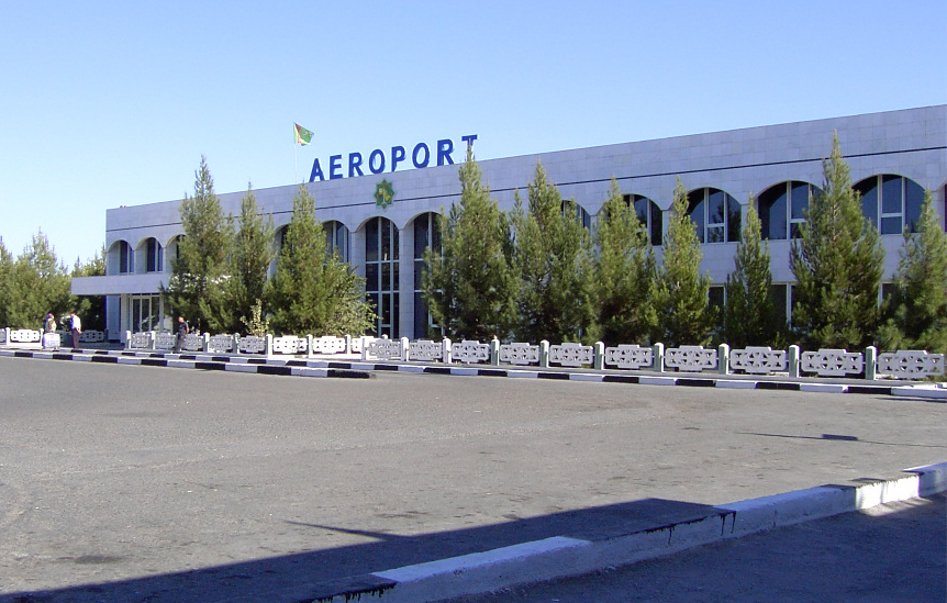 Passenger terminal at Turkmenabat Airport